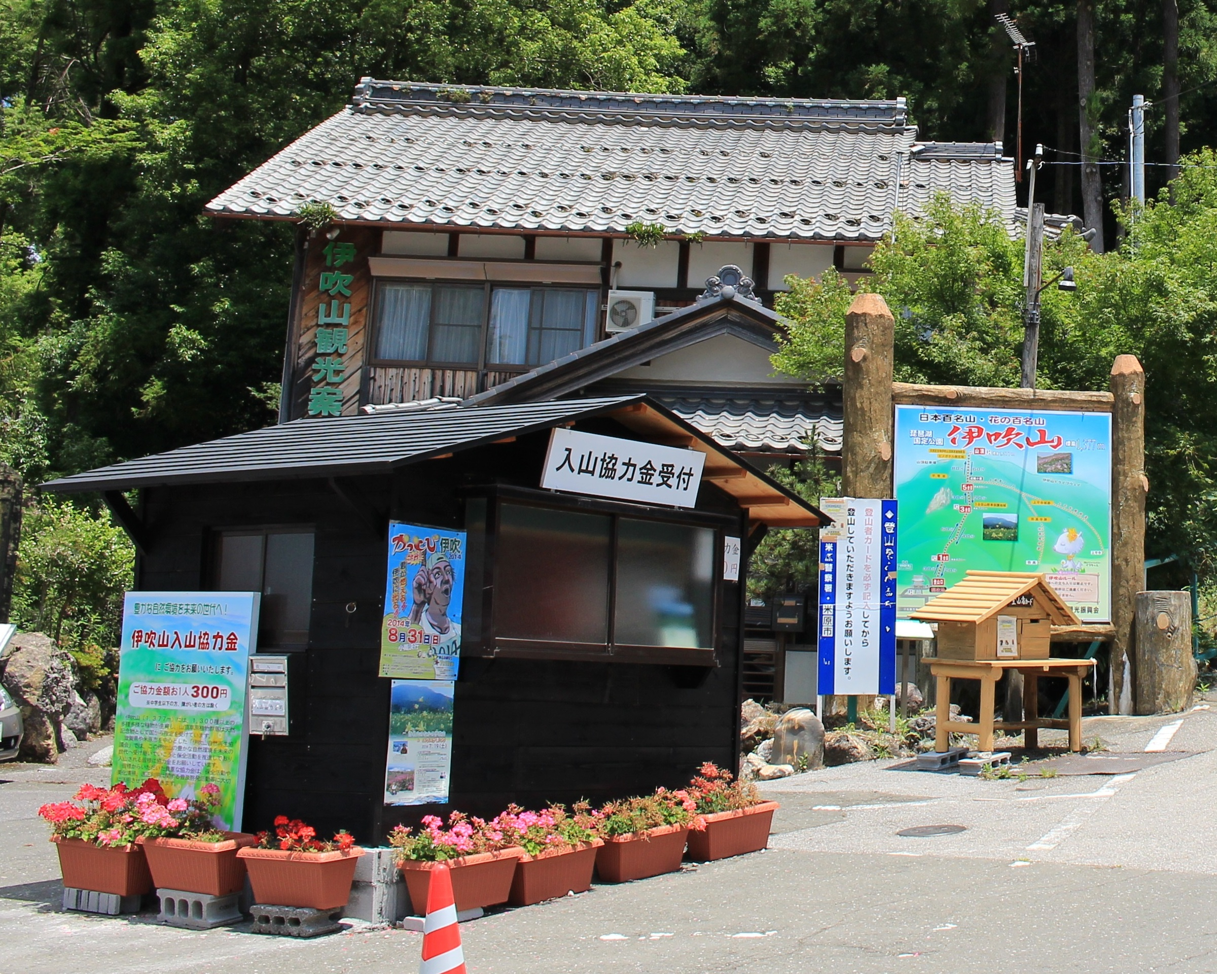 Toll house of Mount Ibuki at Trailhead of hiking trail, in Maibara, Shiga prefecture, Japan.